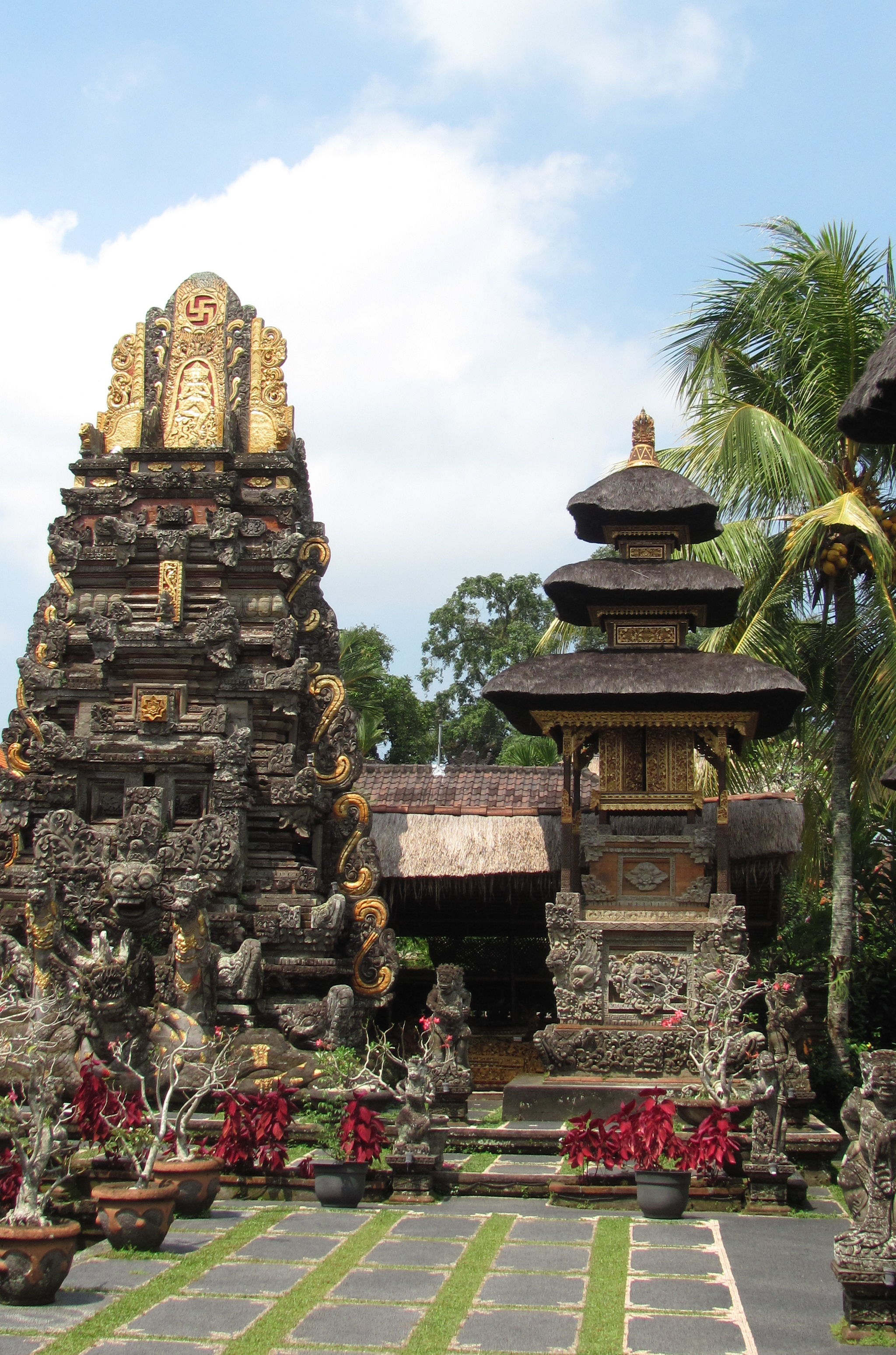 "Pura Sri Saraswathi" Temple in Ubud, Bali, Indonesia